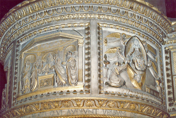 Pulpit. Santa Maria Novella. Florence